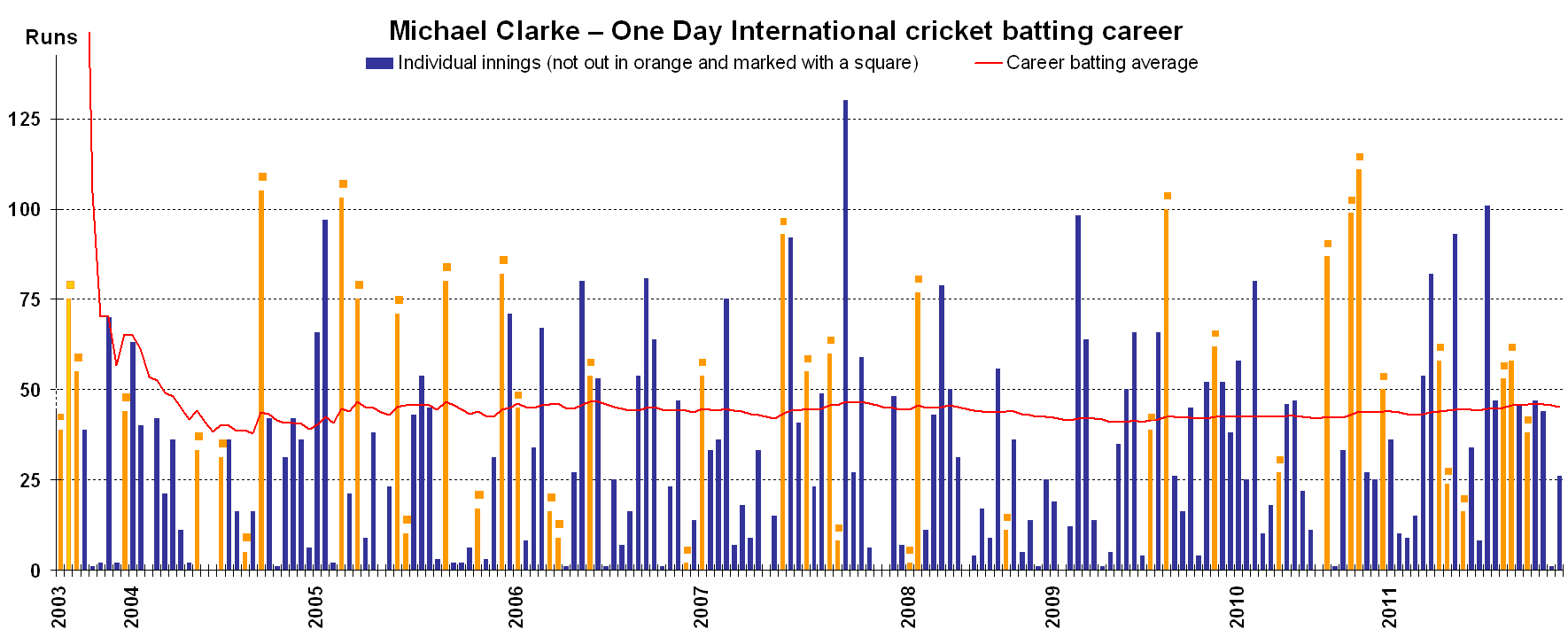 This graph details the One Day International cricket performance of Australian cricketer Michael Clarke and was created by en.wiki user:EdChem. Each bar indicates a single ODI game, blue ones for innings in which he was dismissed, orange ones (marked with a square) for innings in which he batted but was not out. The red line shows his career batting average as at the end of each match. An alternative version, File:Michael Clarke ODI batting career v2.png instead shows a 10 match moving average.The graph was generated with Microsoft Excel 2003, the resulting chart being copied to Adobe Photoshop 9 and saved in .png format, using data from Cricinfo [1] and Howstat [2]. This version is current as at 23 January 2012, which is also the date it was prepared.